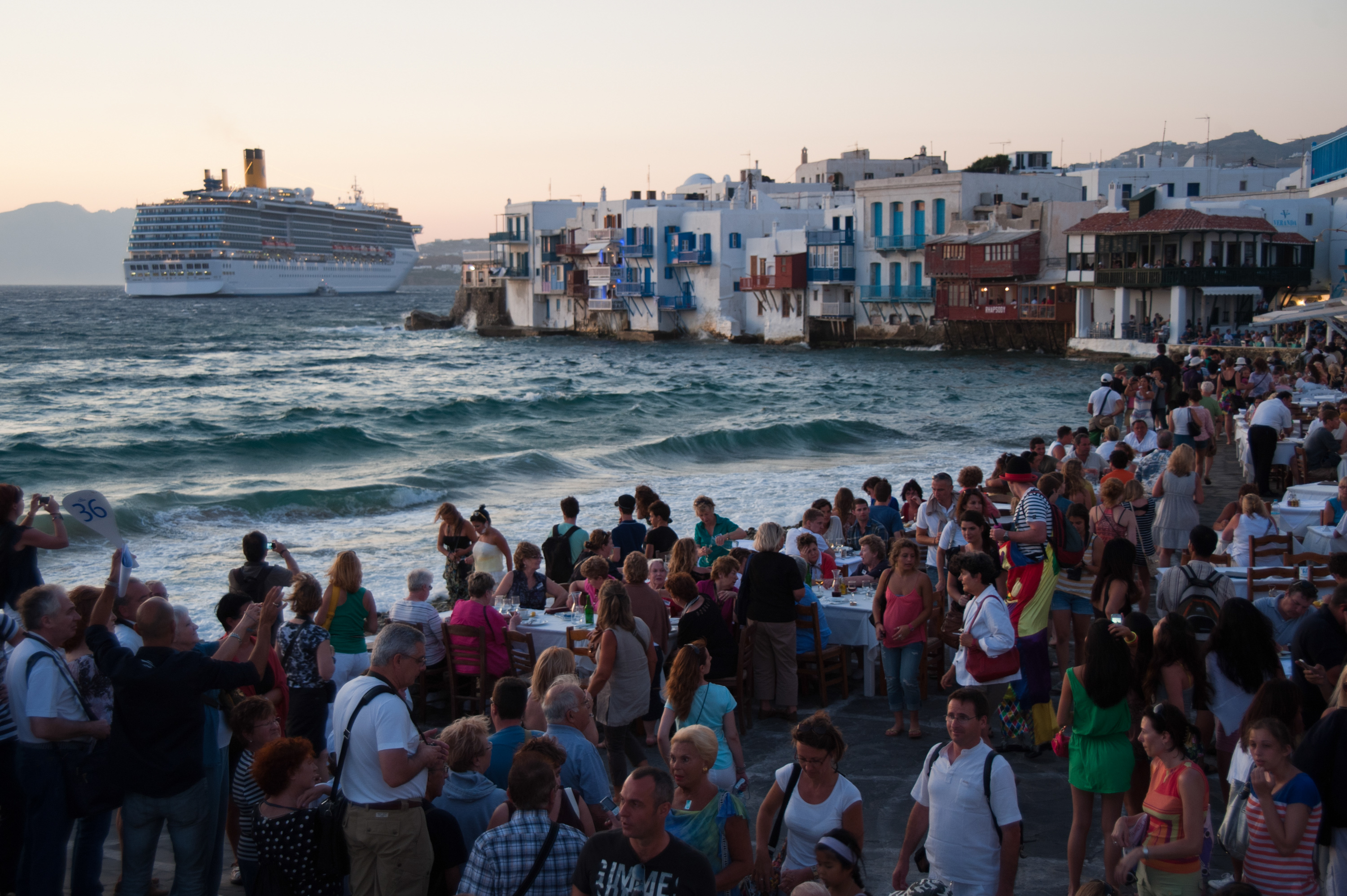 Little Venice quay flooded with tourists. Mykonos island. Cyclades, Agean Sea, Greece.